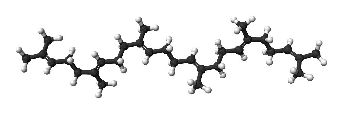 Ball-and-stick model of the squalene molecule, C30H50, as found in the crystal structure. X-ray crystallographic data from: J. Ernst, J-H. Fuhrhop, Liebigs Ann. Chem., 1979 (11), 1635-1642. Model constructed in CrystalMaker 8.1. Image generated in Accelrys DS Visualizer.